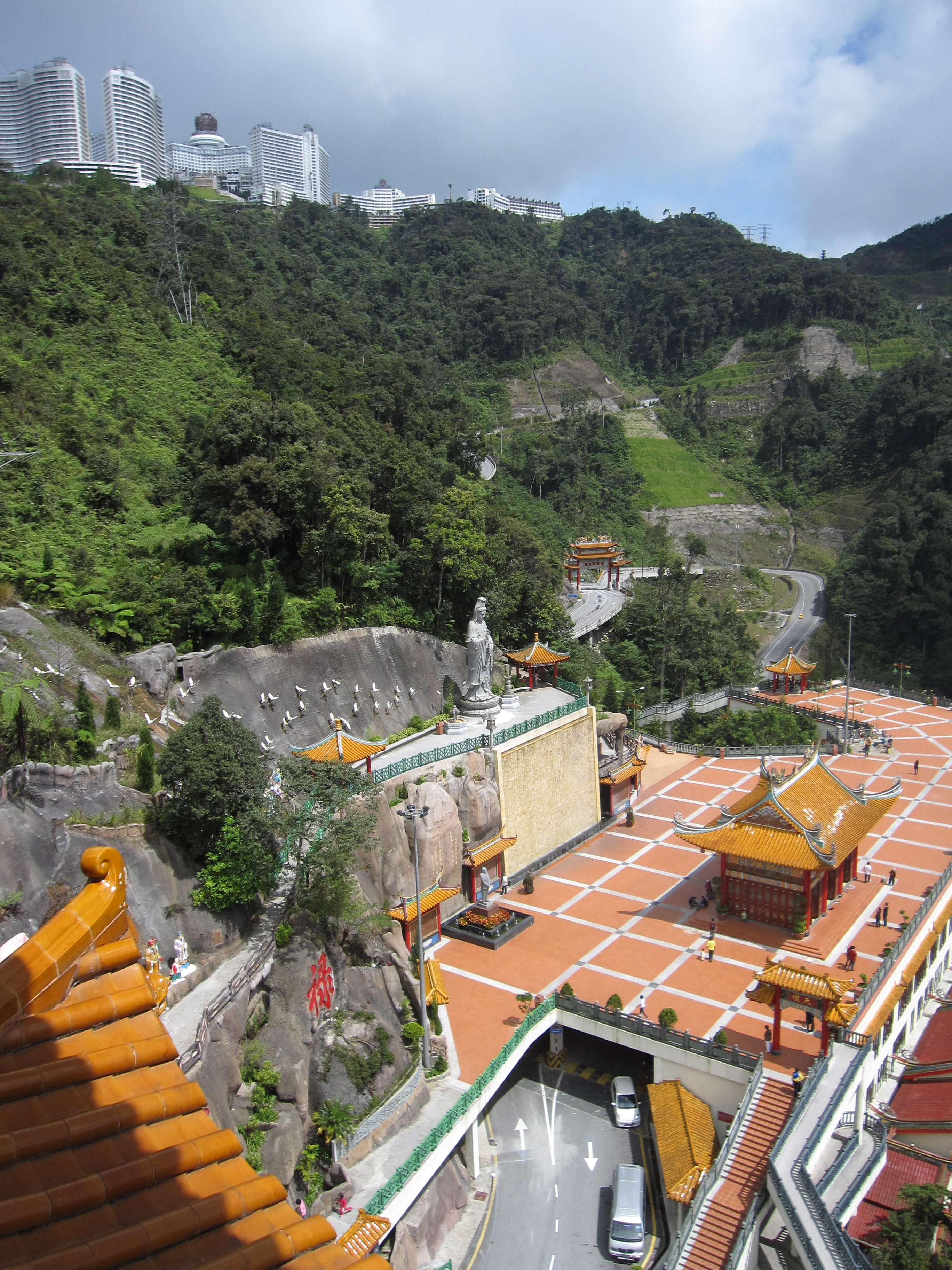 Chin Swee Caves Temple in the Genting Highlands, Kuala Lumpur.